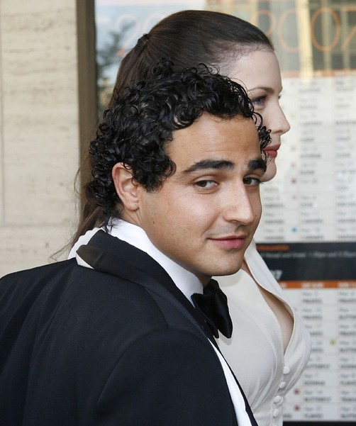 Fashion designer Zac Posen, standing in front of actress Liv Tyler